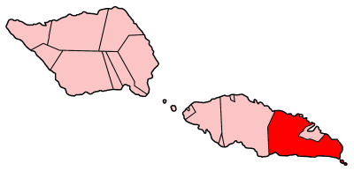 Map of Samoa showing Atua district. Made by User:Golbez.